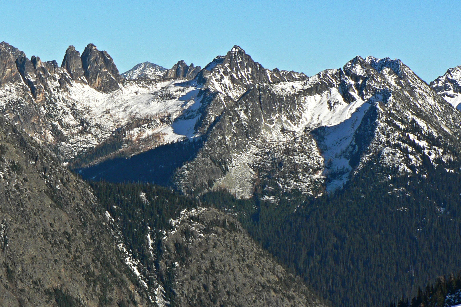 Blue Lake Peak centered and Early Winters Spires left, seen from Maple Pass Trail